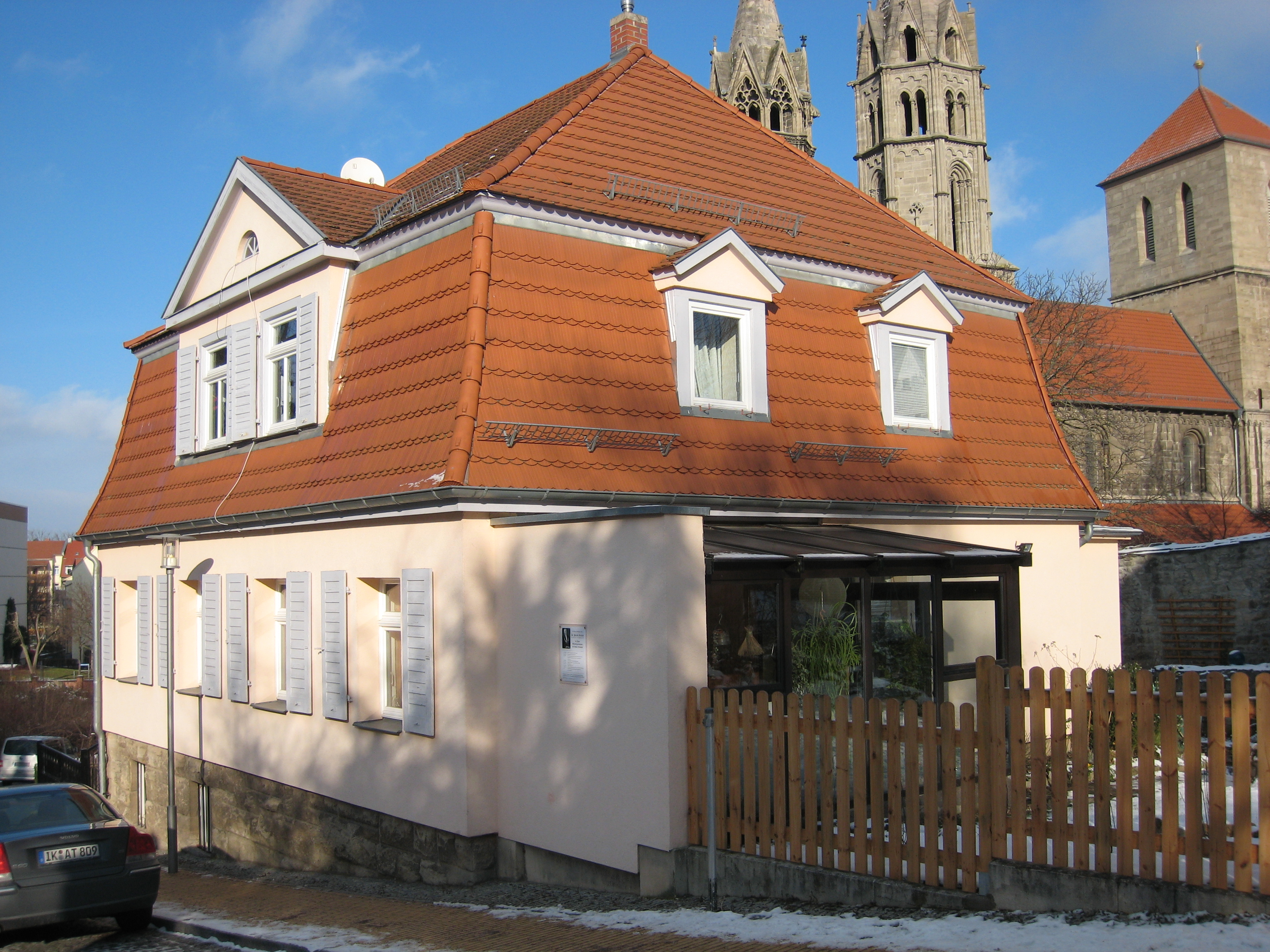 Dwelling-house of Harald Bielfeld in Hohe Bleiche 2, Arnstadt